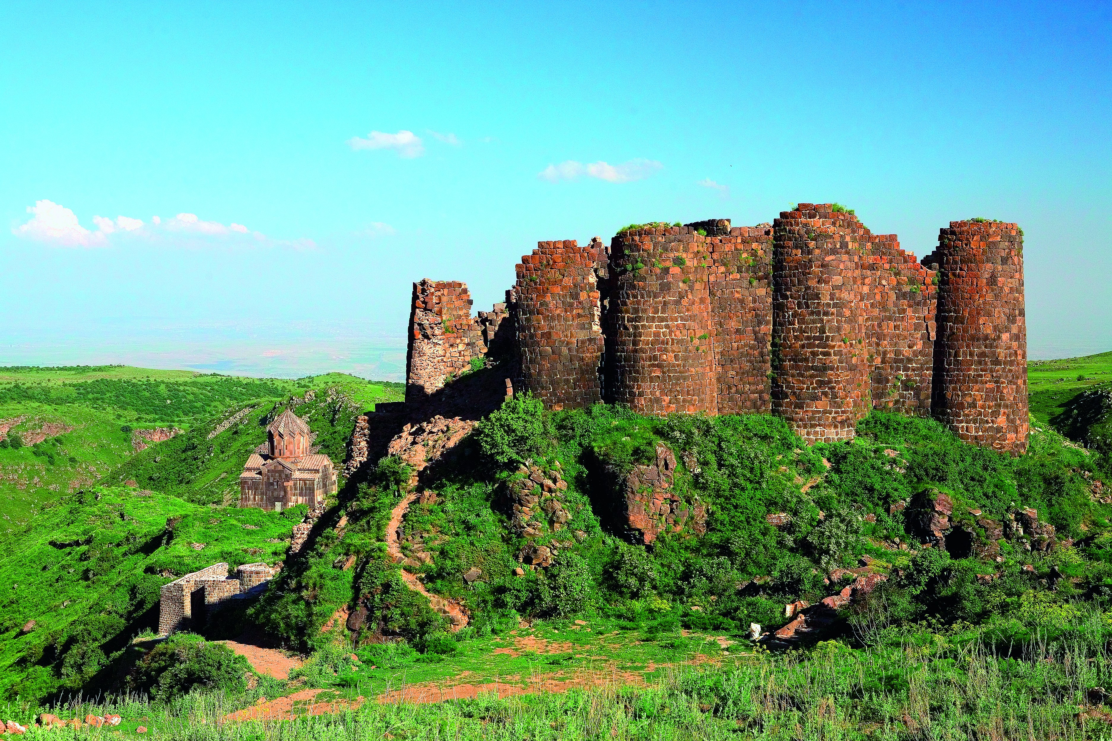 Amberd Fortress